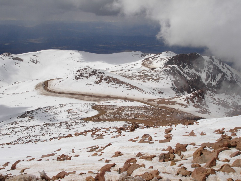 The view from near the top of Pikes Peak looking back at the parkway.